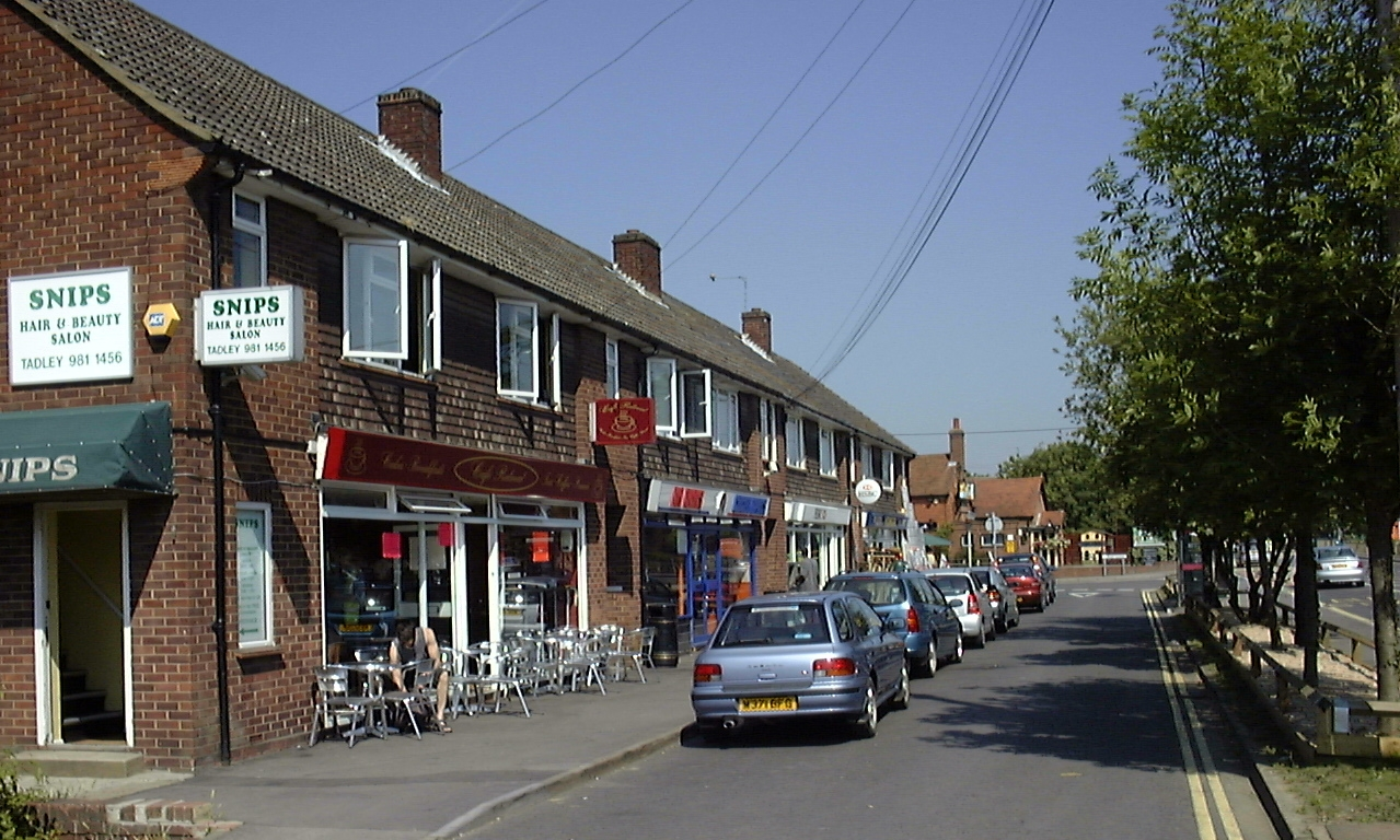 Shops on Mulfords Hill, Tadley, England, in part of the main shopping area in the town. The picture was taken under conditions of sun and clear sky at approximately 09:30 UTC. The equipment used was a Toshiba PDR-M1 digital camera in Auto mode. The original picture was cropped from the bottom to remove excess foreground.